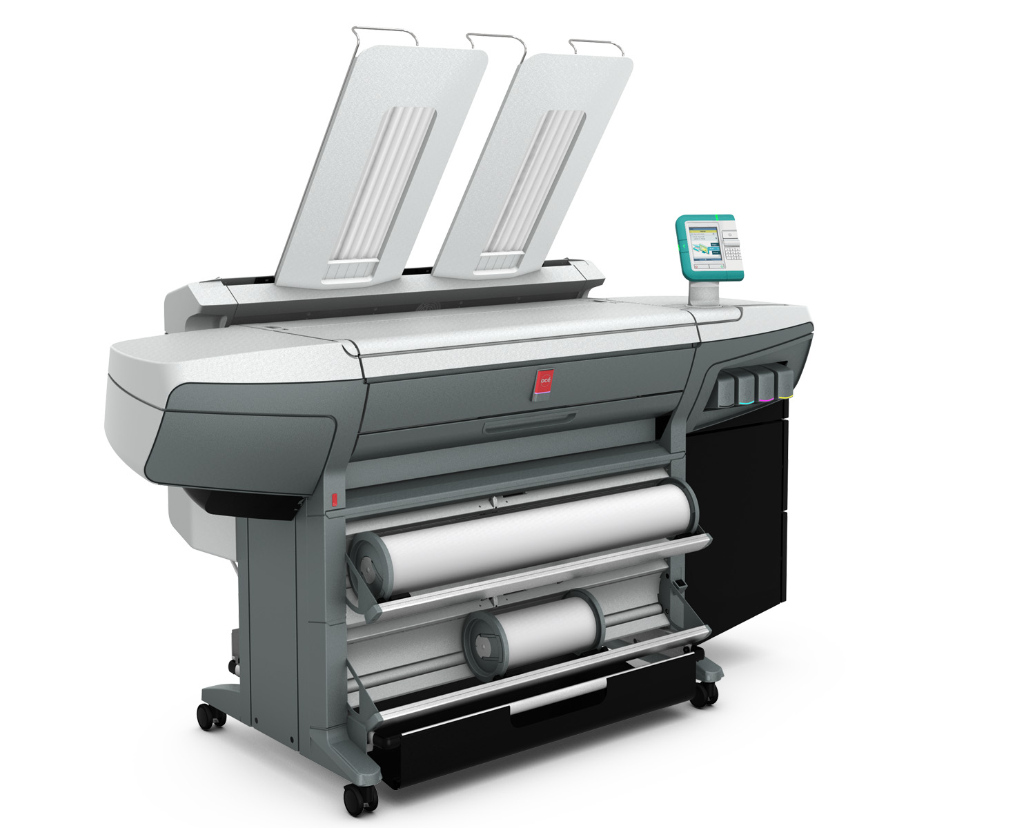 colorplotter